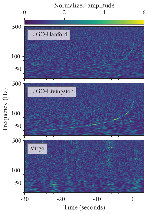 Gravitational wave signal GW170817 measured by the LIGO and VIRGO gravitational wave detectors, plotted as a function of frequency and time. The chirp produced by the neutron star merger is clearly visible as a thin line curving upwards in the LIGO-Hanford and LIGO-Livingston data. The event is not visible in the VIRGO data, due to the lower sensitivity of the VIRGO detector, and the orientation of the detector with respect to the incoming gravitational waves.